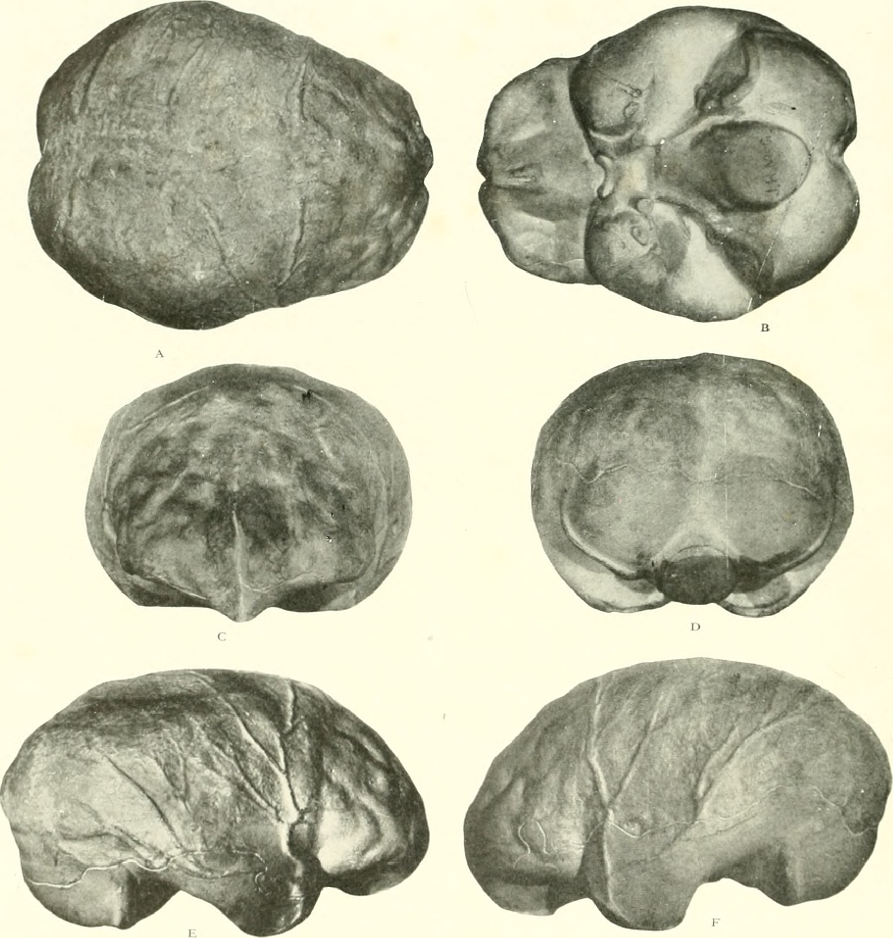 Title: The brain from ape to man; a contribution to the study of the evolution and development of the human brain Year: 1928 (1920s) Authors: Tilney, Frederick, 1875-1938; Riley, Henry Alsop, 1887- Subjects: Brain; Evolution; Pongidae Publisher: New York, P. B. Hoeber, inc. Text Appearing Before Image: ' Text Appearing After Image: FIGS. 366 TO 371. SIX MEWS OI- THE ENDOCRAMAL CAST OF PITHECAN- THROPUS ERECTUS (JAVAN APE-.MAN) THE MOST PRIMIIIXF KNOWN REPRE- SENTATIVE OF THE HUMAN FAMILY. ESTIMATED ANIiyLII'i OF FOSSIL 500,000 YEARS. RESTOKA 1 lONK B'l PROF. J. H. MCGREGOR. (a) Vertex, (d) Base Restored. ((;/ ItdiUmI Pole. M)) Oeei;)it.il Pole, (e) Riglu Lateral Surfaee. (1) Left Lateral surface. The frontal convolutions and br.inclies of the middle meningeal artery are especially well defined. The smoother areas in the cast indicate the regions which h.ive been restored. (870)